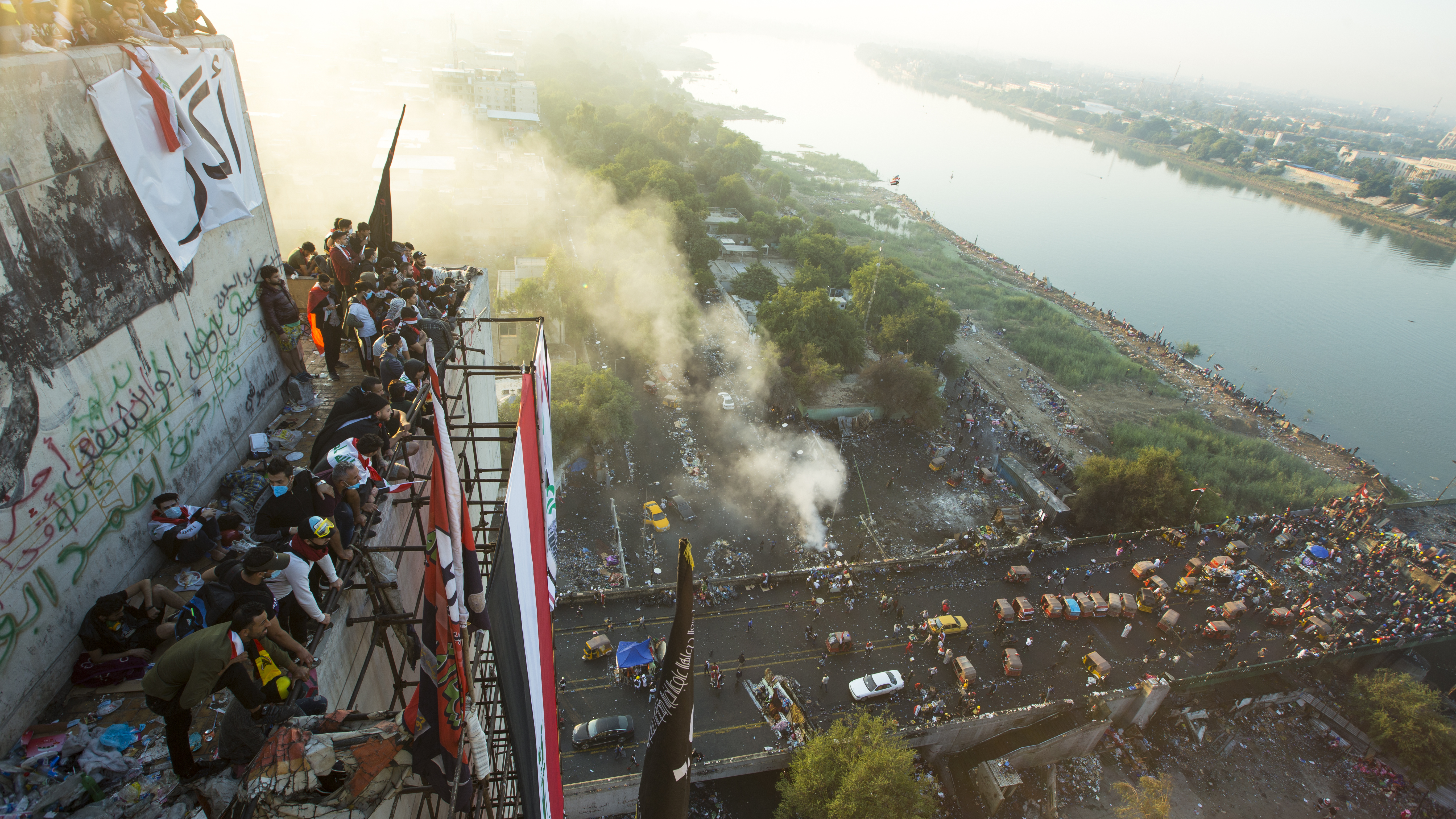 An aerial view of the mountain of one of the "Turkish restaurant" and of the demonstrators